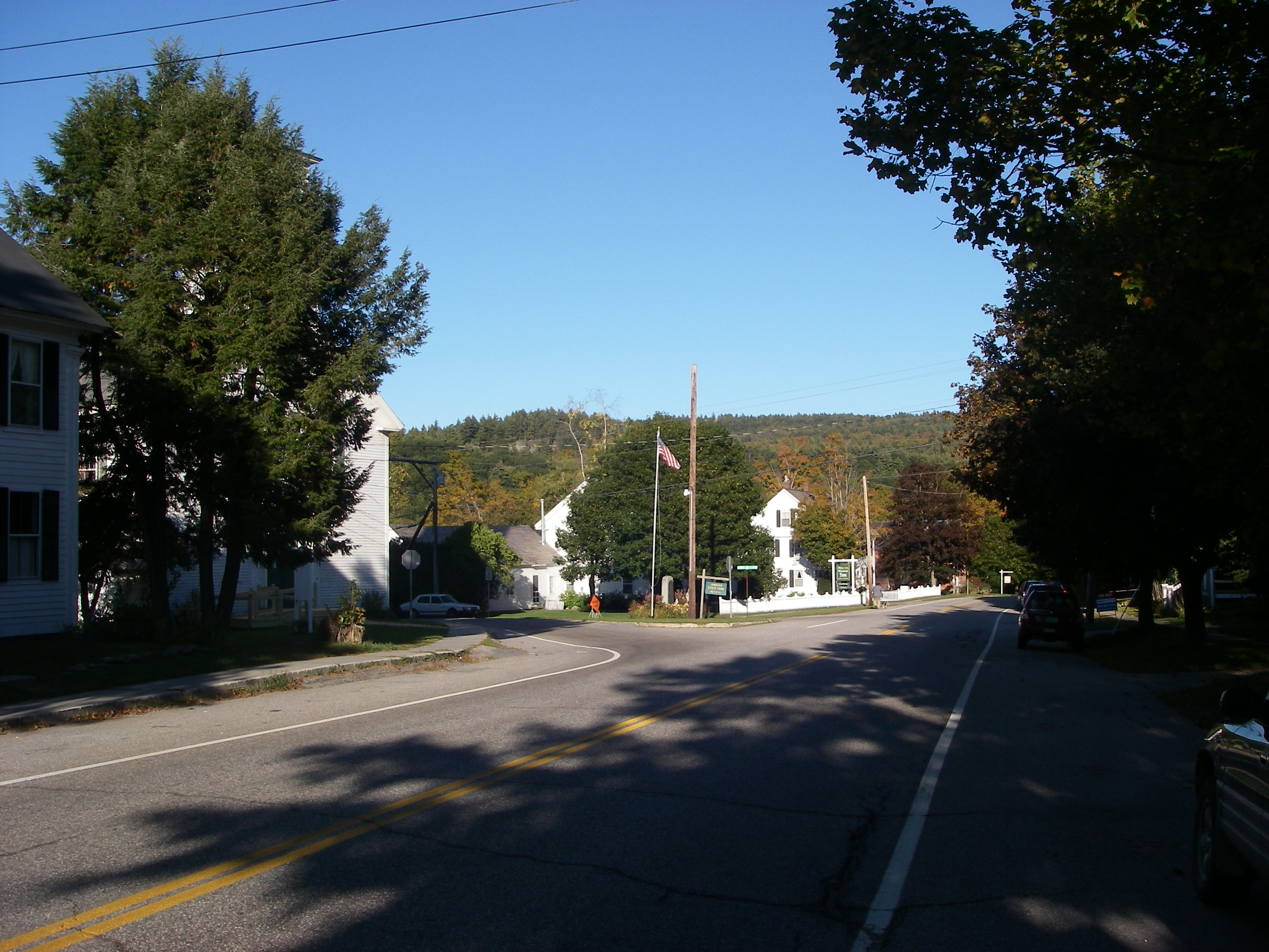 View of Jamaica